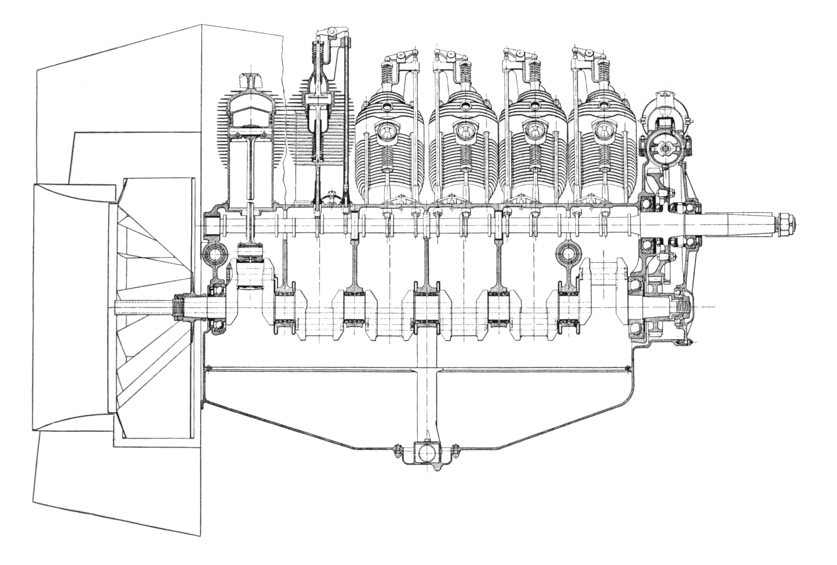 Renault V-12 engine, side view. While the accompanying text describes the 100 hp Renault V-12 engine from 1912, the bore/stroke ratio in this drawing suggests that this drawing may actually depict the preceding 90 hp Renault V-12 engine, which differed in the smaller bore size, having a bore of 90 mm and a stroke of 140 mm.